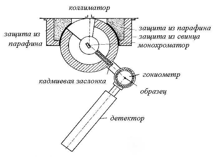 Scheme of neutron diffractometer